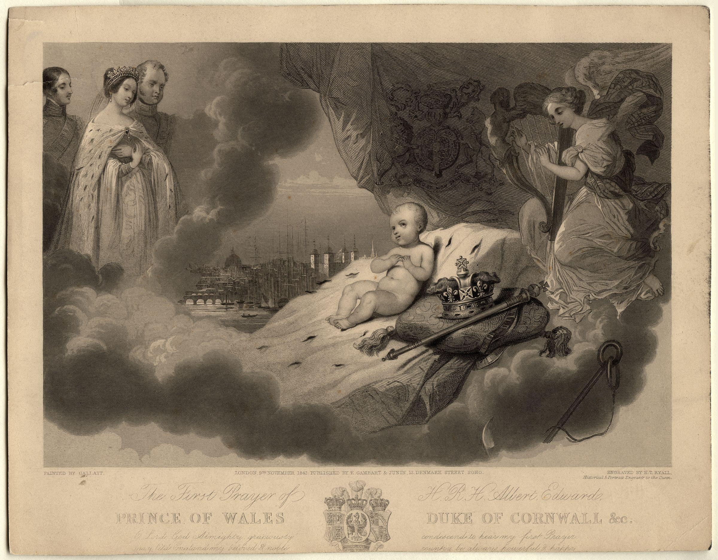 The First Prayer of Albert Edward Prince of Wales Duke of Cornwall &c. All images in this batch have been confirmed as author died before 1939 according to the official death date listed by the NPG.